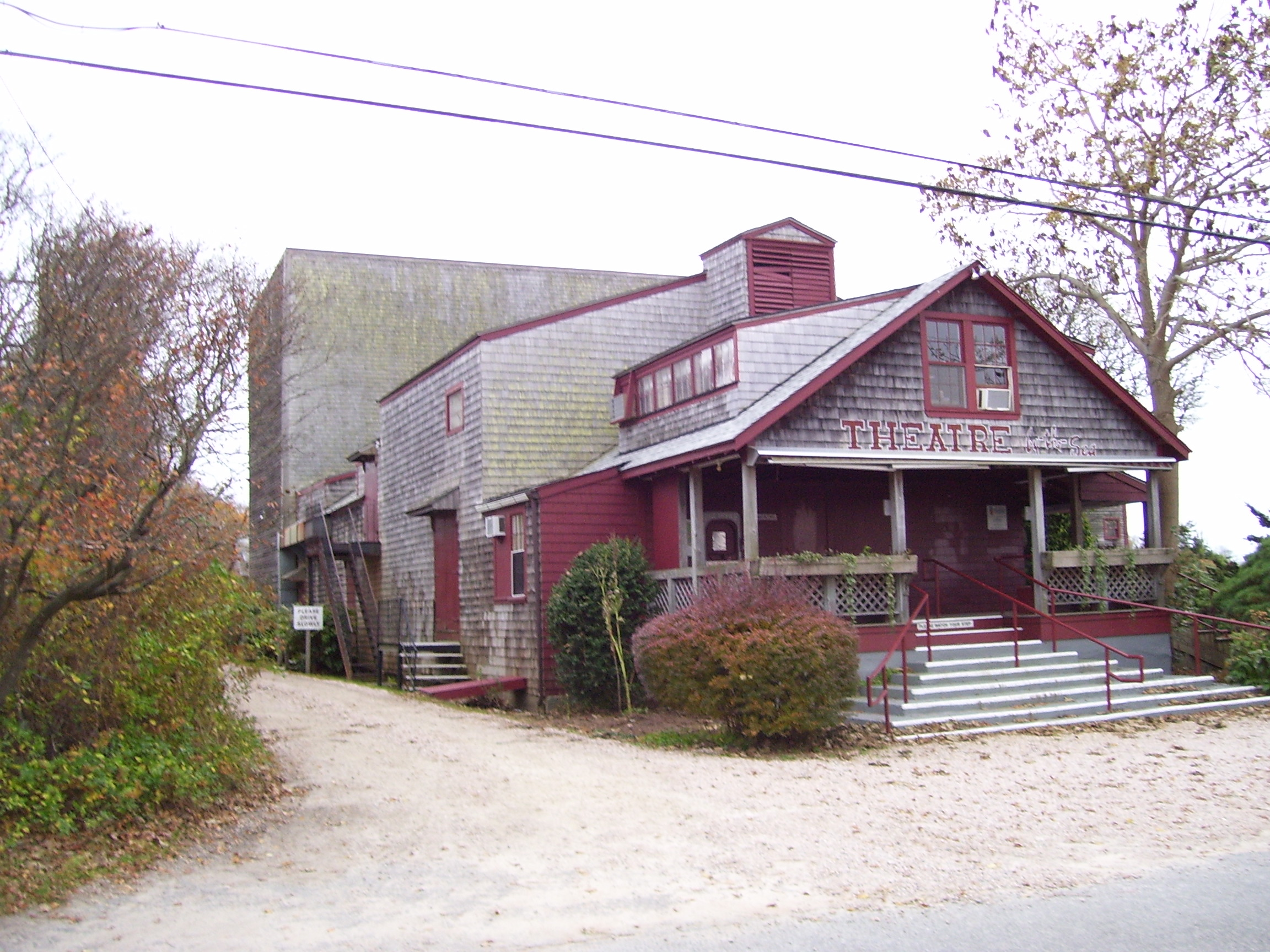 This is my 2008 photo of the Theatre by the Sea in South Kingstown, Rhode Island.